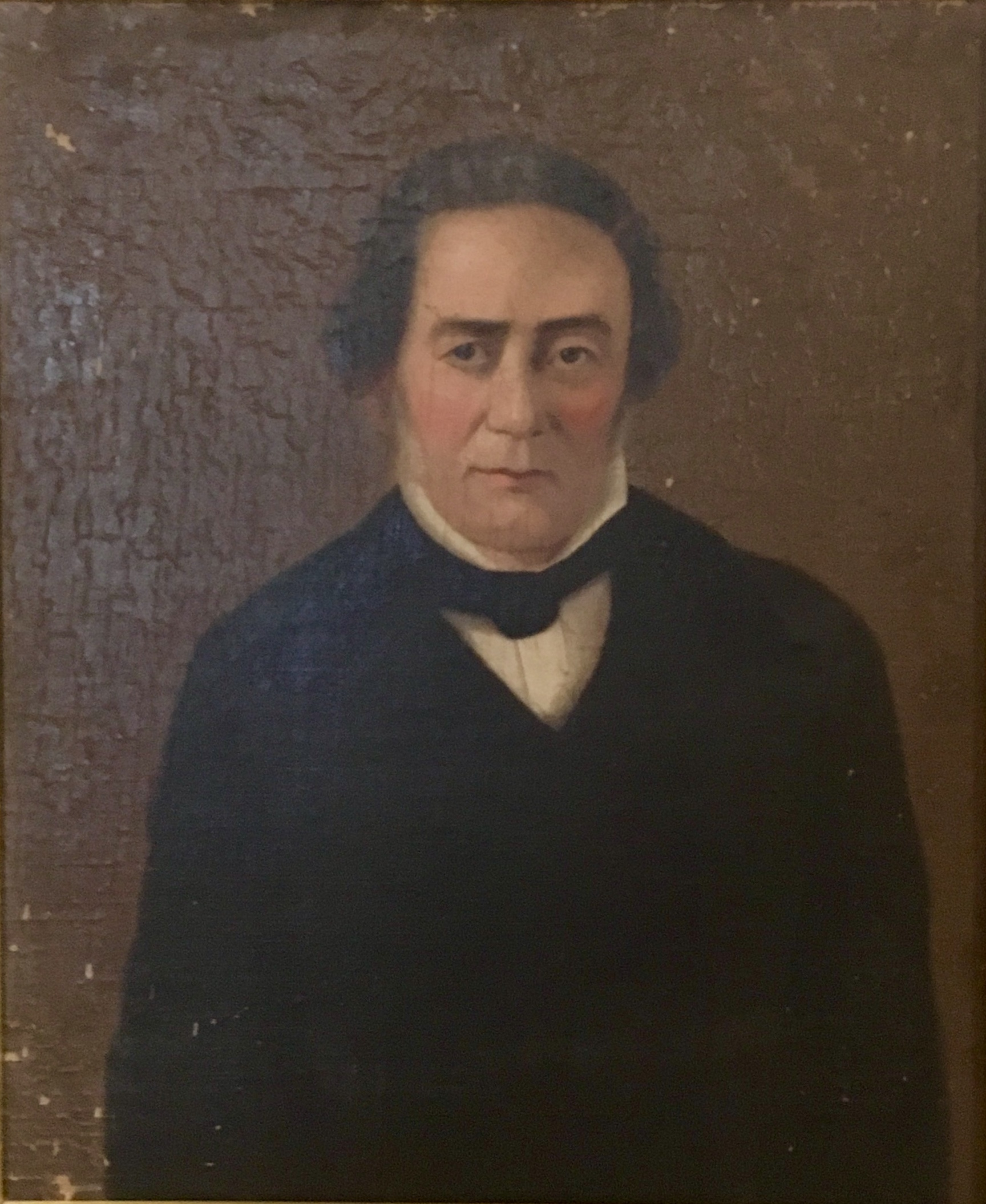 1850 portrait of Ygnacio Palomares, Courtesy of The Historical Society of Pomona Valley